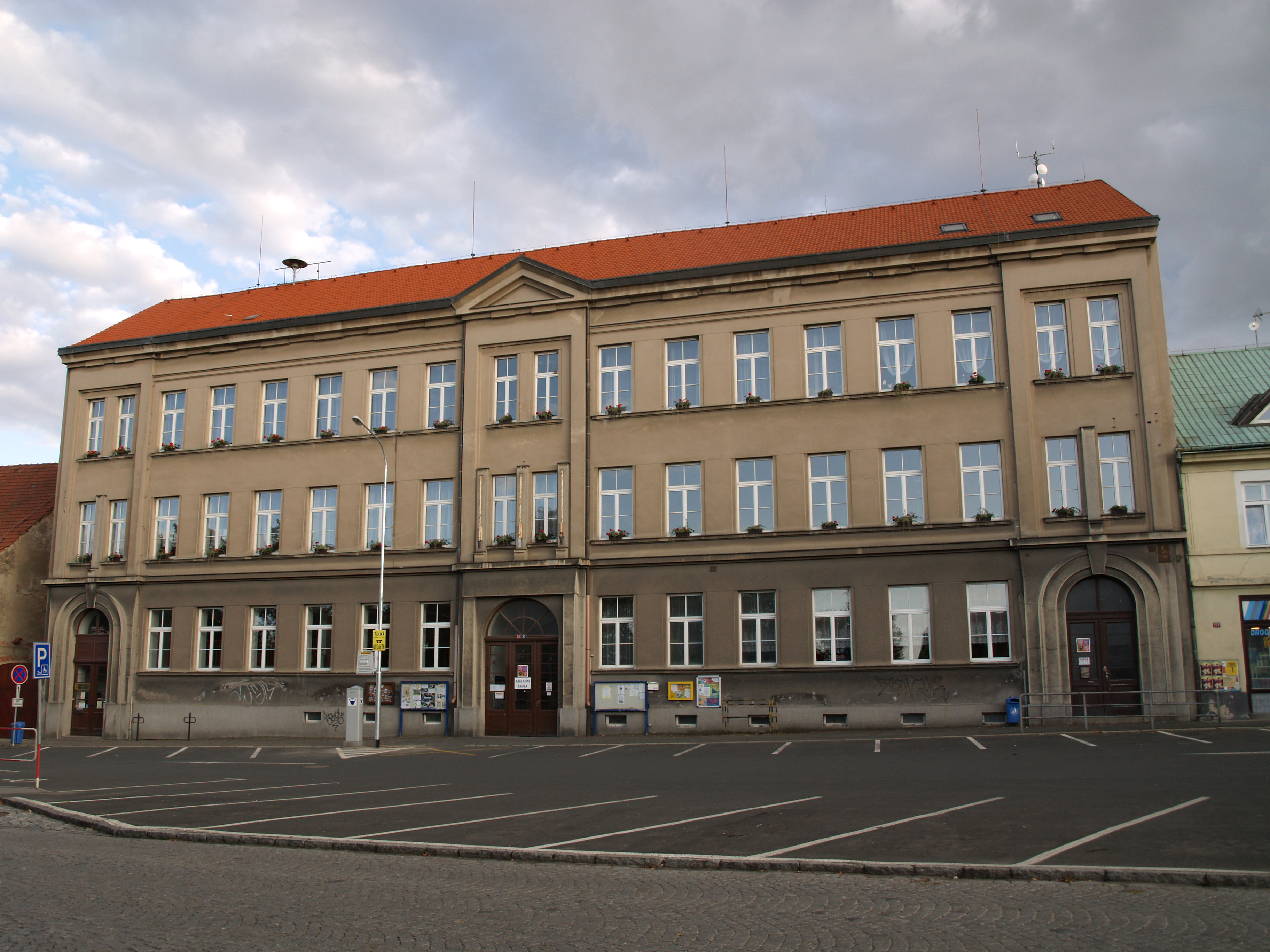 Elementary school and Municipal library in Kostelec nad Černými lesy